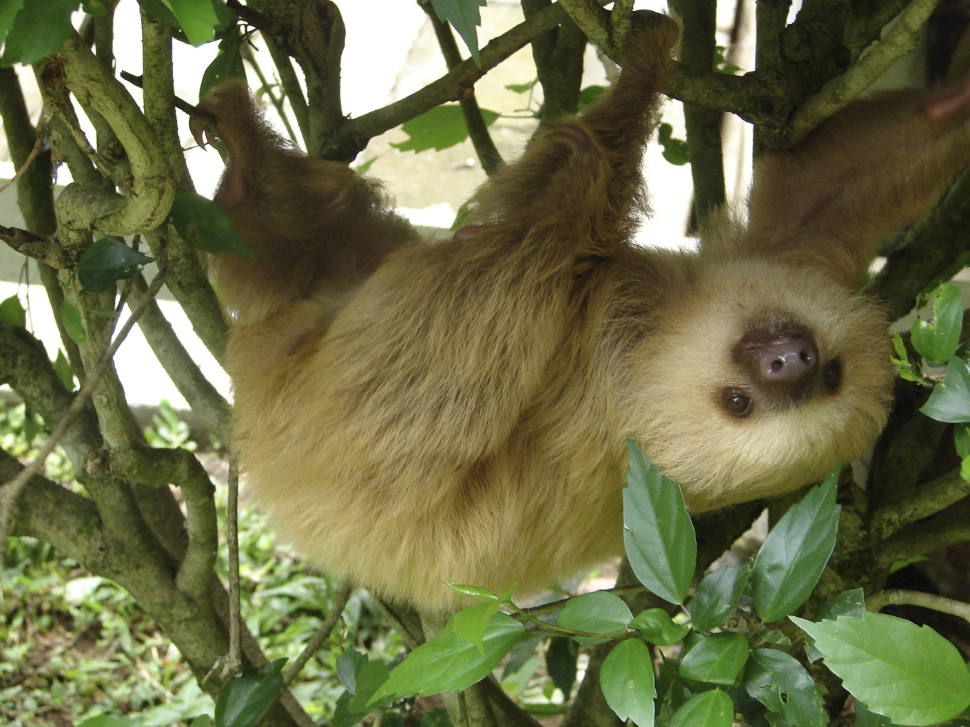 a 2-toed sloth at the Jaguar Rescue Centre in Costa Rica